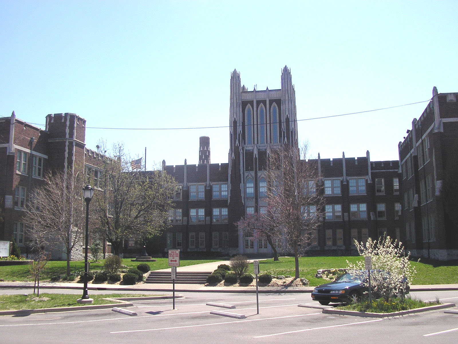 Dupont Manual High School in Louisville, Kentucky. I took this picture.